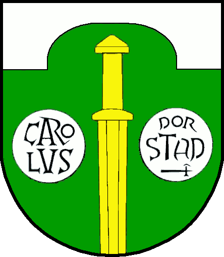 Coat of arms of the municipality Pöschendorf in Schleswig-Holstein, Germany.